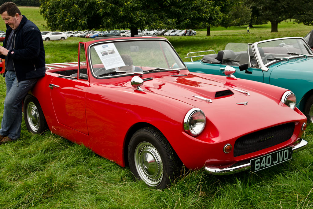 1963 Falcon Caribbean Mk III at a classic car show at Arley Hall, Cheshire, England